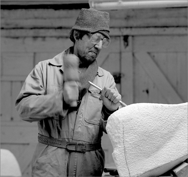 Ad Molendijk in his studio photographed by W.Boese in Nieuwe Schans/The Netherlands